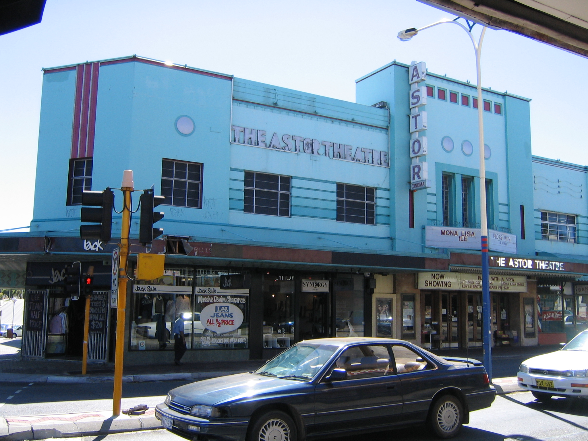 The Astor Cinema, corner of Walcott and Beaufort streets, Mt Lawley, Western Australia.